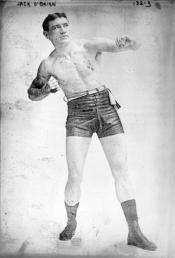 Jack O'Brien, in wrestling trunks